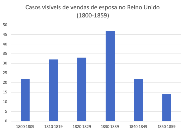 Visible cases of wife-selling in the UK. Created with data from Thompson, Edward P. (1991). «The Selling of Wives». Customs in Common. London: Merlin Press. pp. 404–466. ISBN 978-0-85036-411-8.